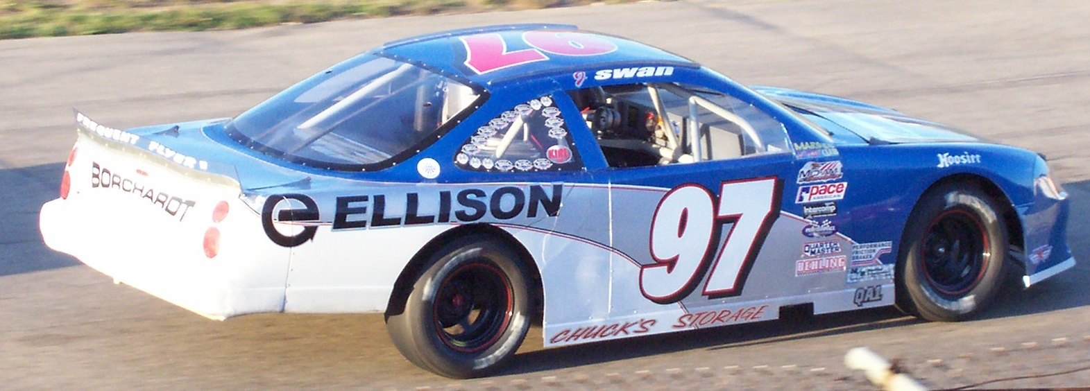 The racecar of 2006 Mid-American Stock Car Series champion James Swan. Taken at the final stock car races at Lake Geneva Raceway in Lake Geneva, Wisconsin, USA on October 1, 2006.